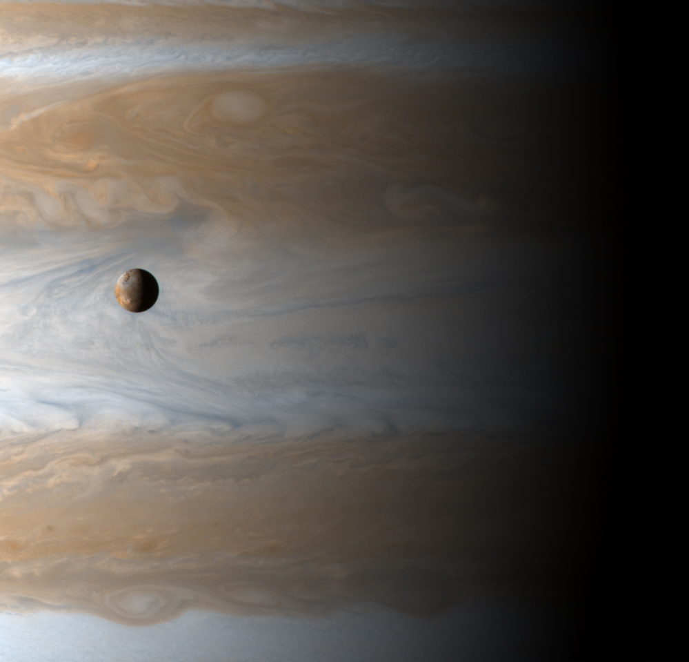 Released with Image The Galilean satellite Io floats above the cloudtops of Jupiter in this image captured on the dawn of the new millennium, January 1, 2001 10:00 UTC (spacecraft time), two days after Cassini's closest approach. The image is deceiving: there are 350,000 kilometers -- roughly 2.5 Jupiters -- between Io and Jupiter's clouds. Io is the size of our Moon, and Jupiter is very big.